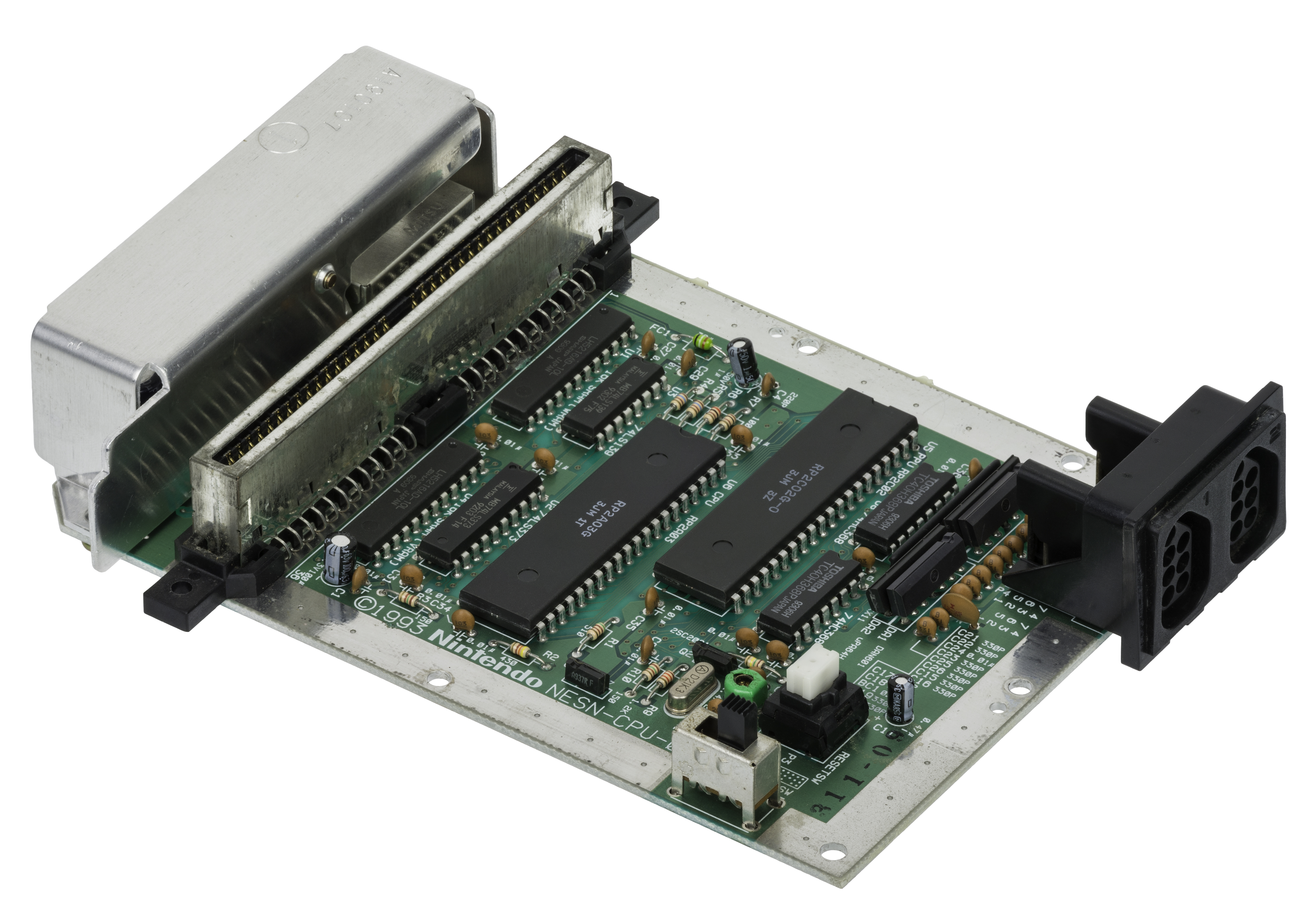 The motherboard for the Nintendo Entertainment System (NES) video game console, model NES-101. This is the revised version of the console (commonly called the "top loader") that was released in 1993. It is a much smaller and streamlined system, as well as featuring a more reliable cartridge connector. It did remove composite video support, and is only capable of RF video out. The motherboard is based on an 8-bit MOS 6502 processor produced by Ricoh. Chips from the motherboard are listed below: Ricoh RP2A03G 3JM 1T Ricoh RP2C02G-0 3JM 3Z Toshiba 9306H TC40H368P (x2) MB74LS139 9302 F75 MB74LS373 9203 F14 Sharp LH5216AD-10L 9309 A (x2)